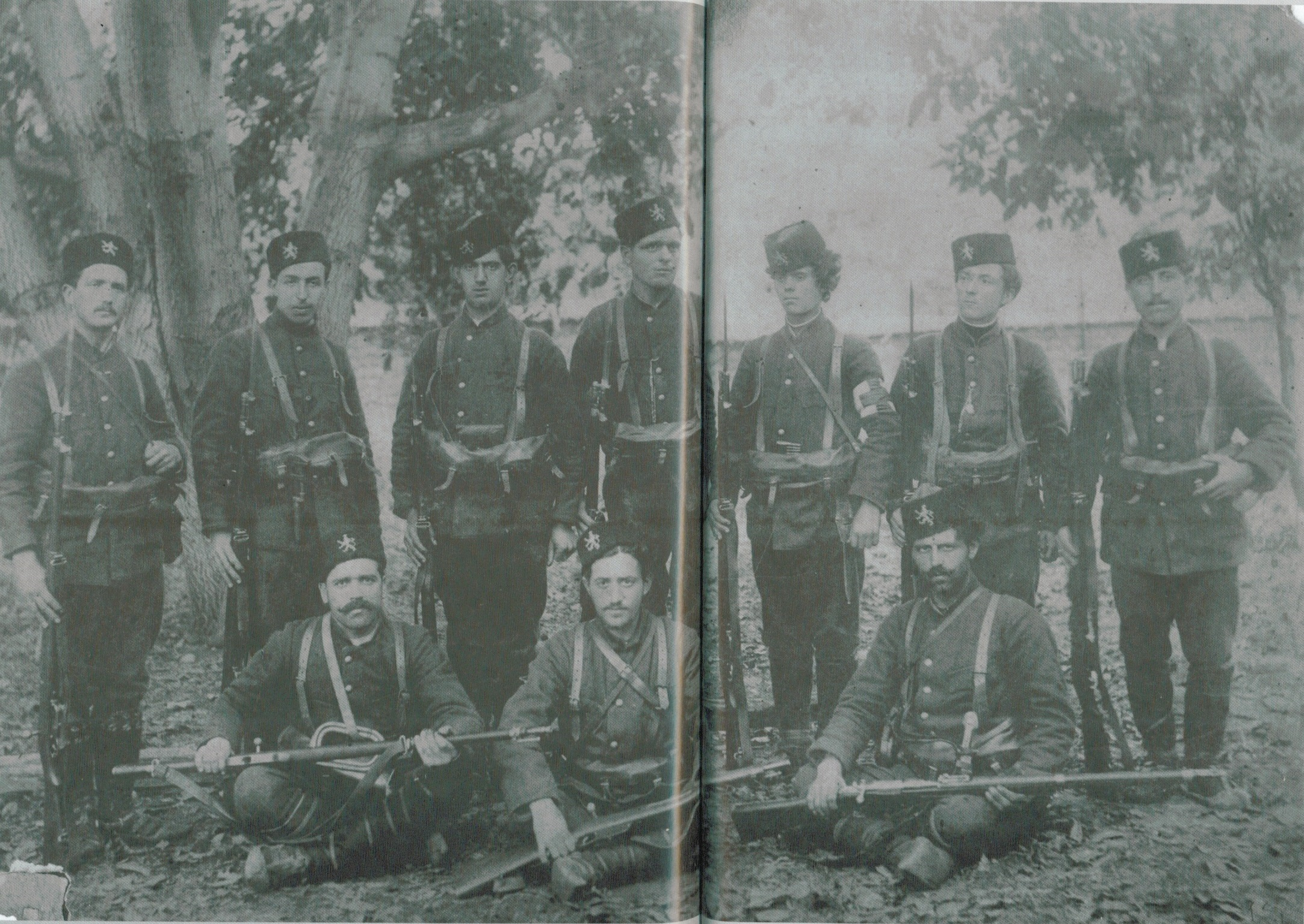 MAVC Guerilla Squad 2